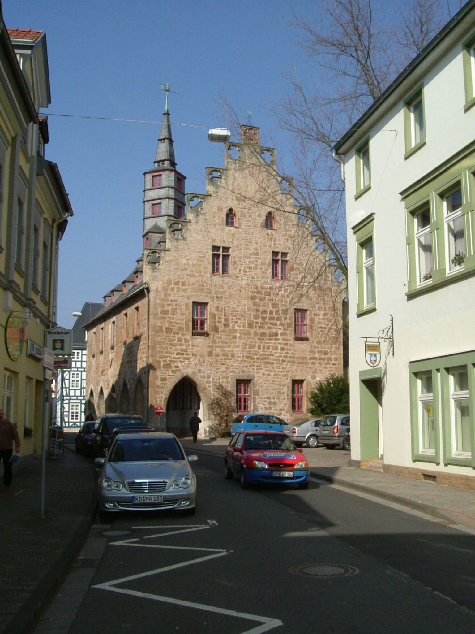 Korbach, Germany. Town Hall. Author: Peter Kaboldy, 03. 2007.